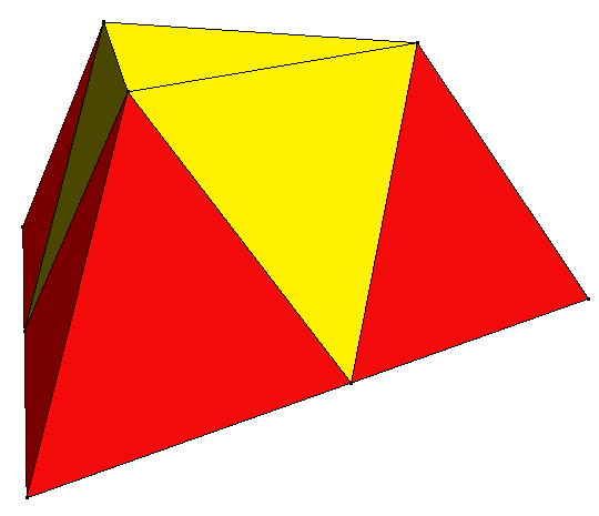 tetrahedron with one vertex rectified